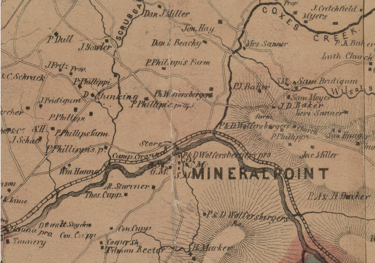 Map of Mineral Point (later named Rockwood), Pennsylvania, taken from 1860 Edward L. Walker map of Somerset County available at the Library of Congress website